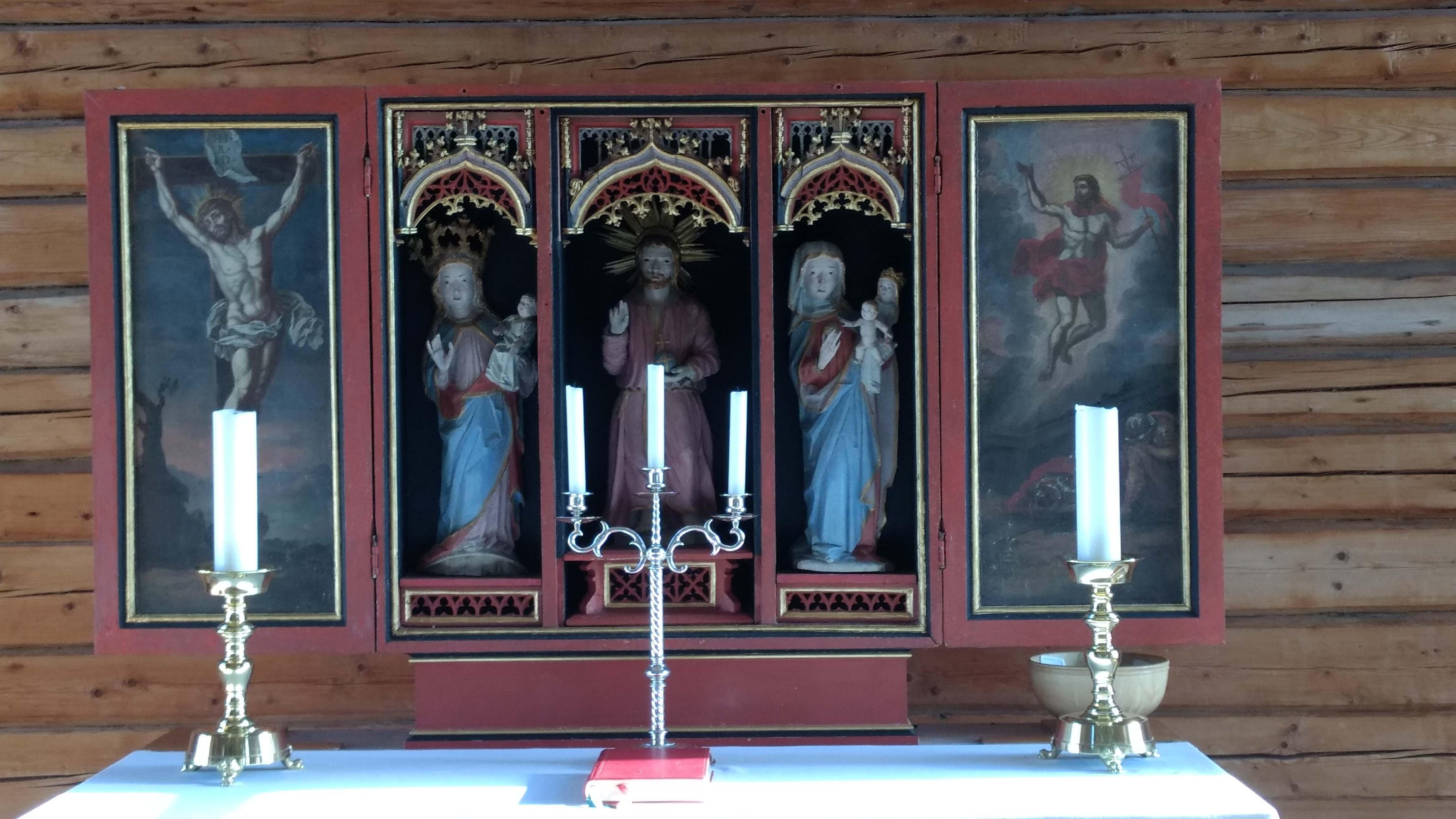 Altar piece in Hillesøy church. From left: St. Mary, Jesus Christ, St. Anna, mother of Mary.